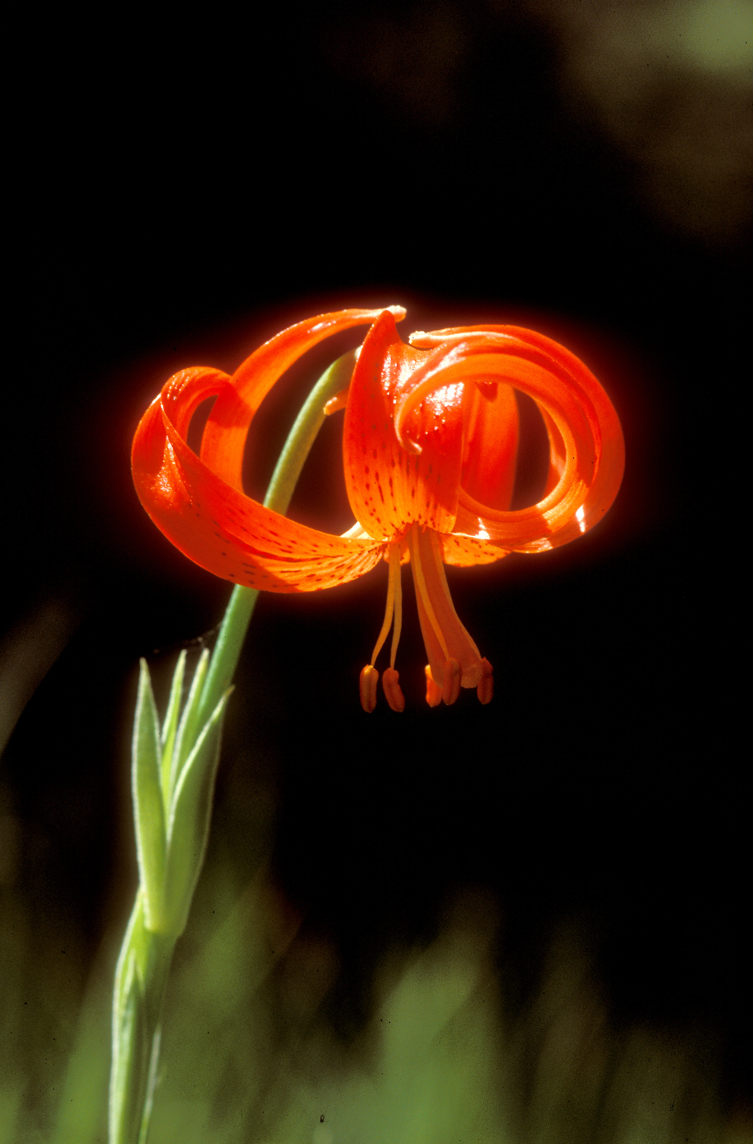 Lilium chalcedonicum var. heldreichii in habitat at Peleponnes, Menalon, Greece